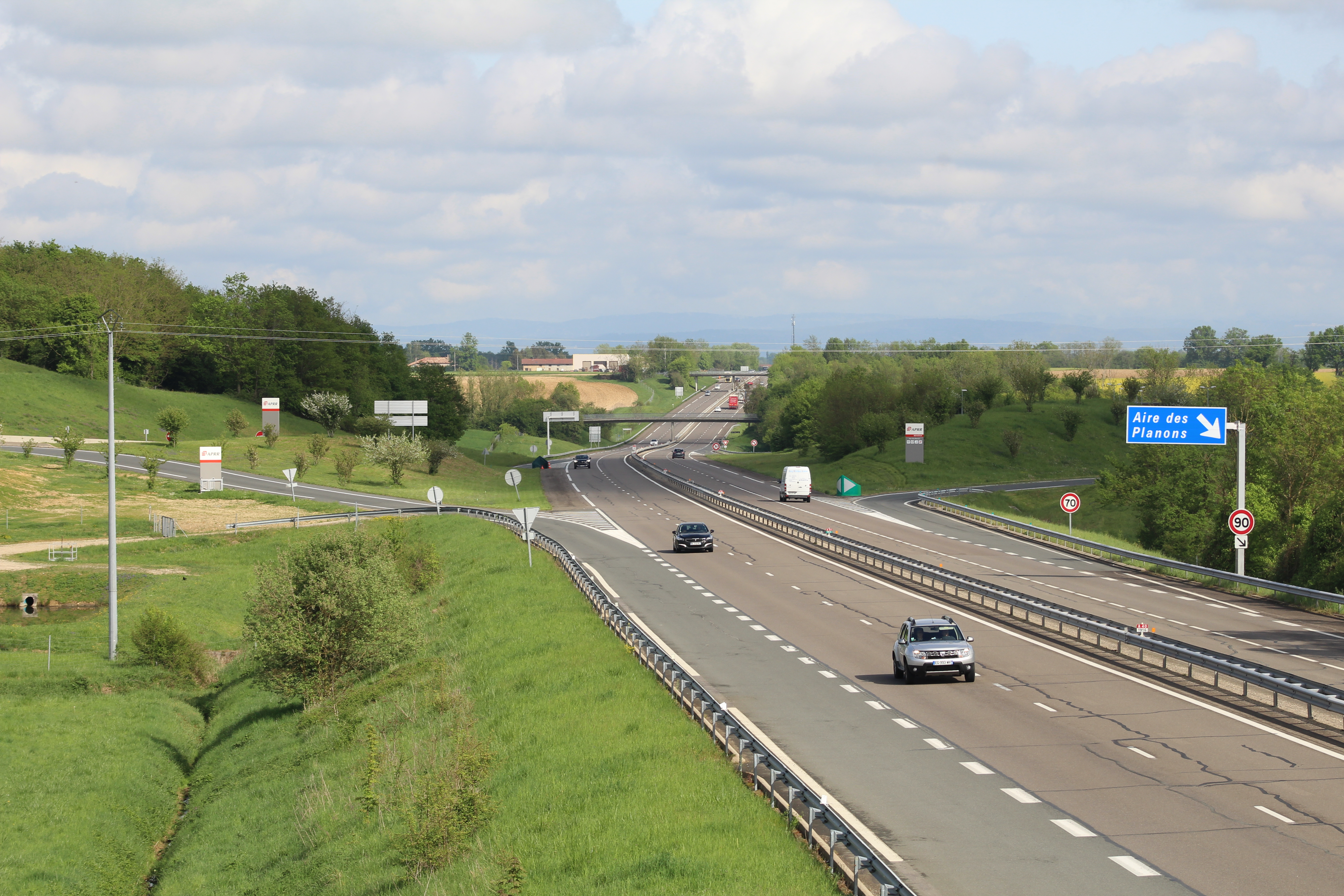 A40 Motorway viewed from Route de la Mulatière bridge in Saint-Cyr-sur-Menthon, Ain departement, France.